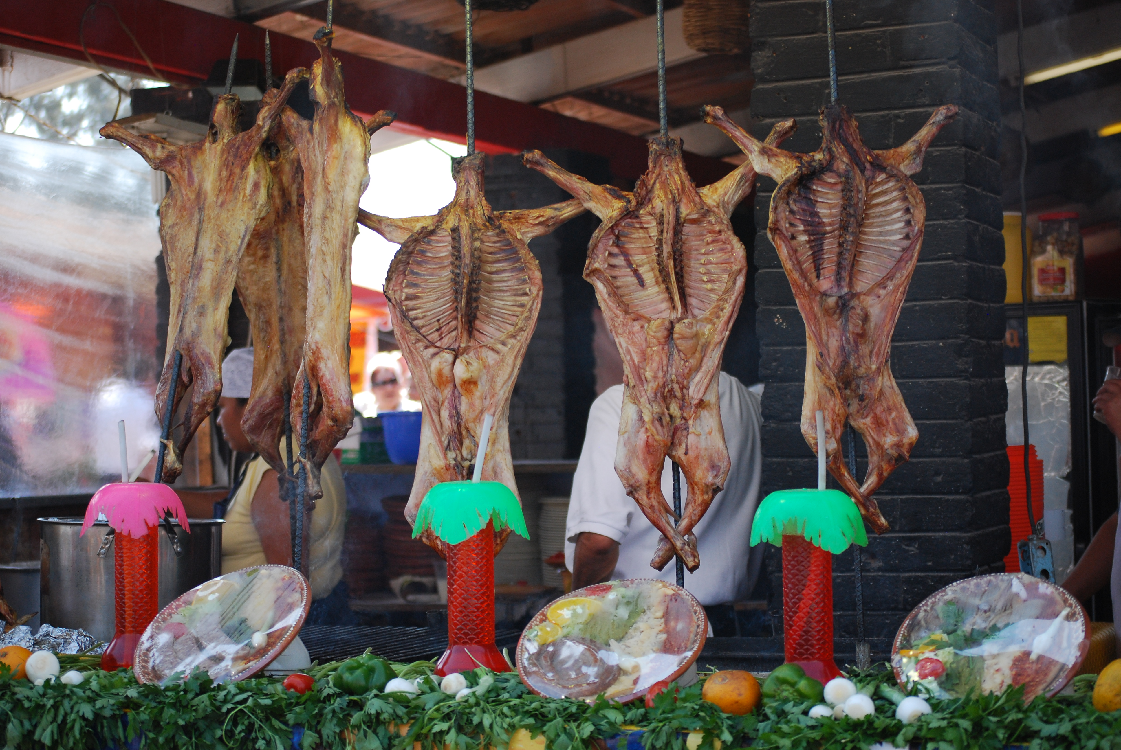 Cabrito or roasted baby goat at the Feria del Caballo in Texcoco, Mexico State, Mexico